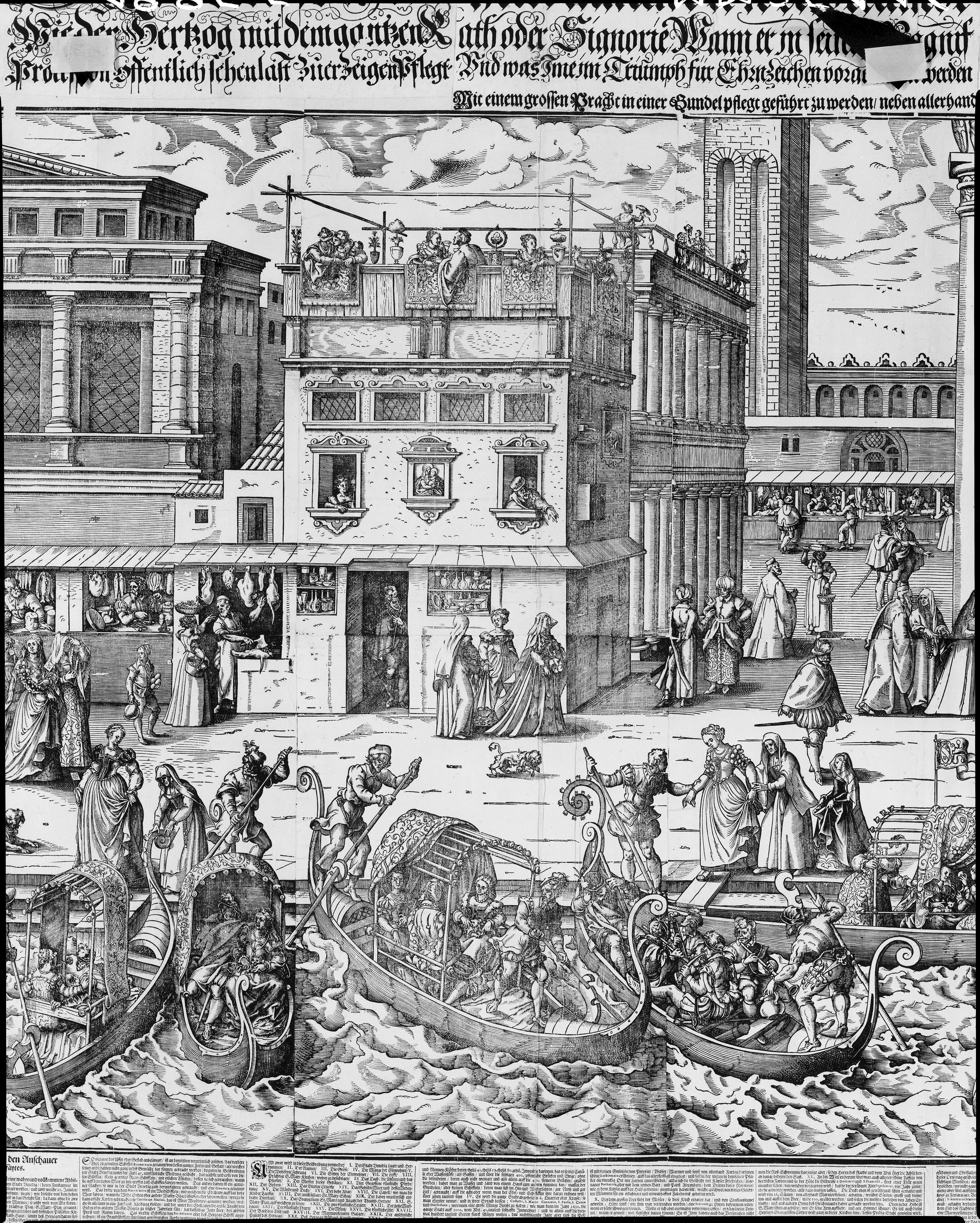 Print; Prints